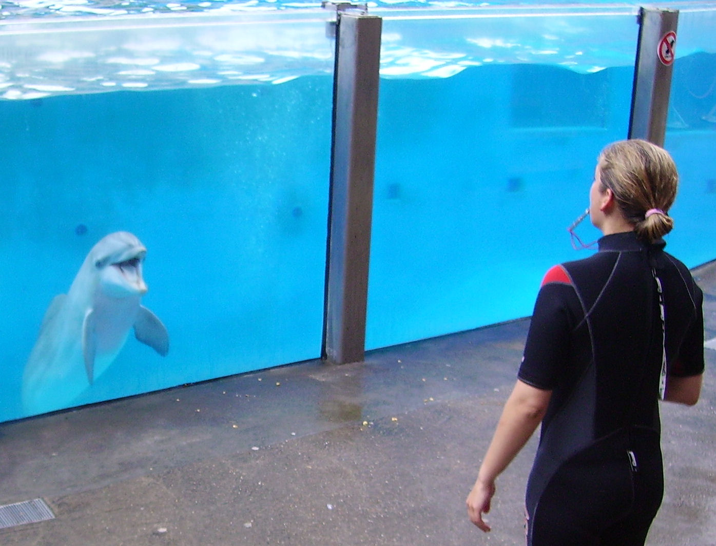 Boudewijnpark near Brugge, Belgium